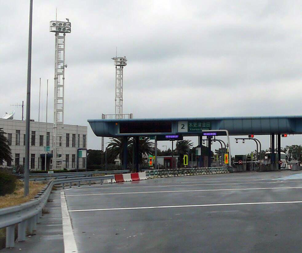 Aqua Contact line Kisarazu-Kaneda-IC in Chiba, Janan